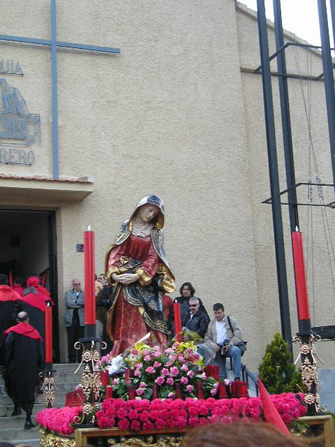 Our Lady of Silence, Salamanca (Spain).